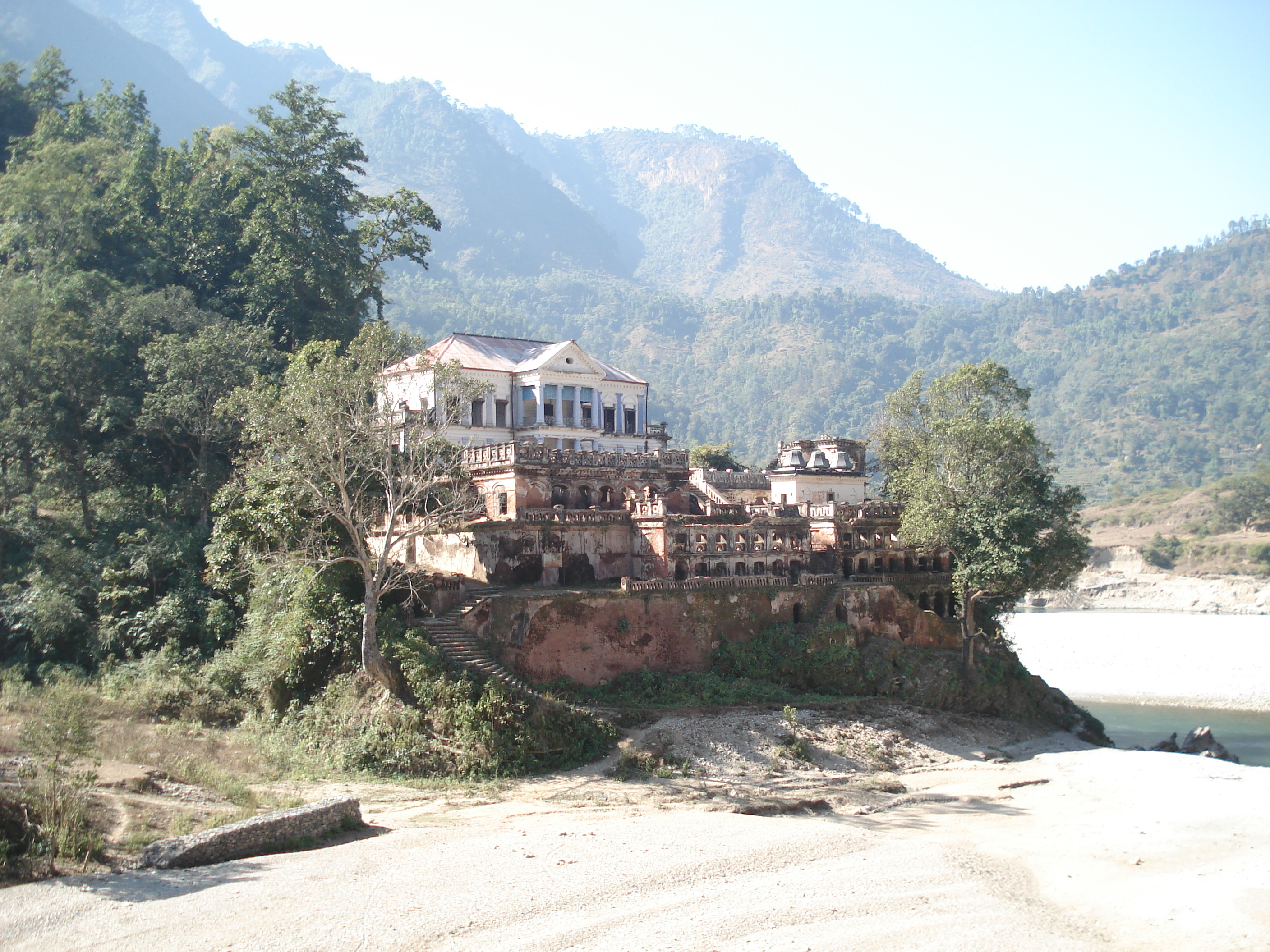 Lying on the bank of famous Kaligandaki River, Rani Mahal (literally The Queen Palace) was built by the then governor of Palpa, Khadga Samsher in the memory of beloved queen Tej Kumari. That's the reason why it is also call Taj Mahal of Nepal. At the time when I went there in 2010, the palace was totally abandoned, leaving no sign of government's presence. Recently, Government of Nepal has taken initiatives to renovate this palace with the help of Nepal Army.